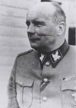 Carl Friedrich Wilhelm Lothar Erdmann Count von Pückler-Burghauss Frederick von Groditz (October 7, 1886 - May 12, 1945) was a German nobleman, veteran of World War I and officer Waffen-SS during the Second World War in the rank of SS-Gruppenführer und Generalleutnant der Waffen-SS; commander of the last German combat troops in the Czechoslovakia. Photo before 1946.